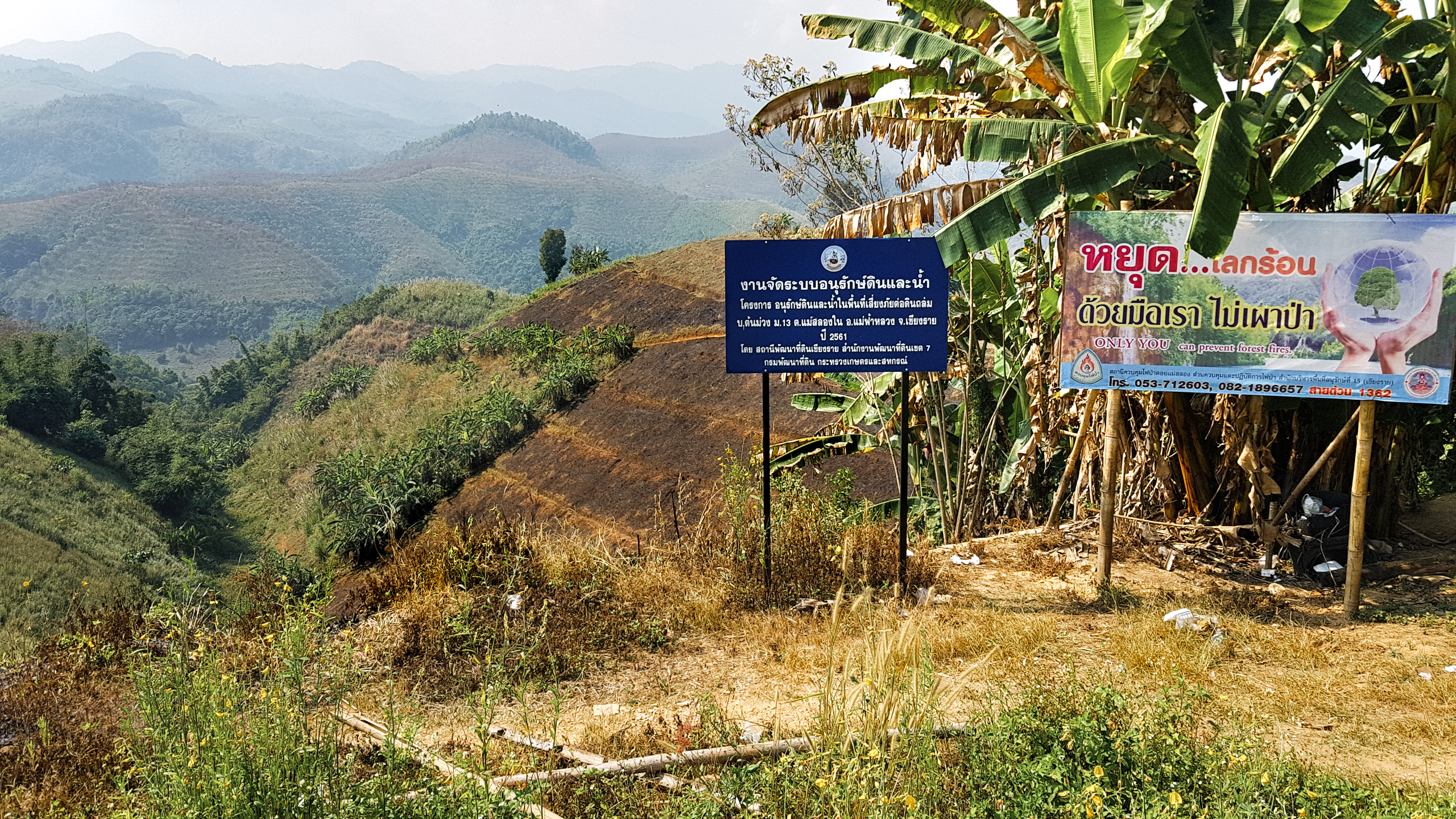 A burnt field in Mae Fa Luang DIstrict and fire warning signs